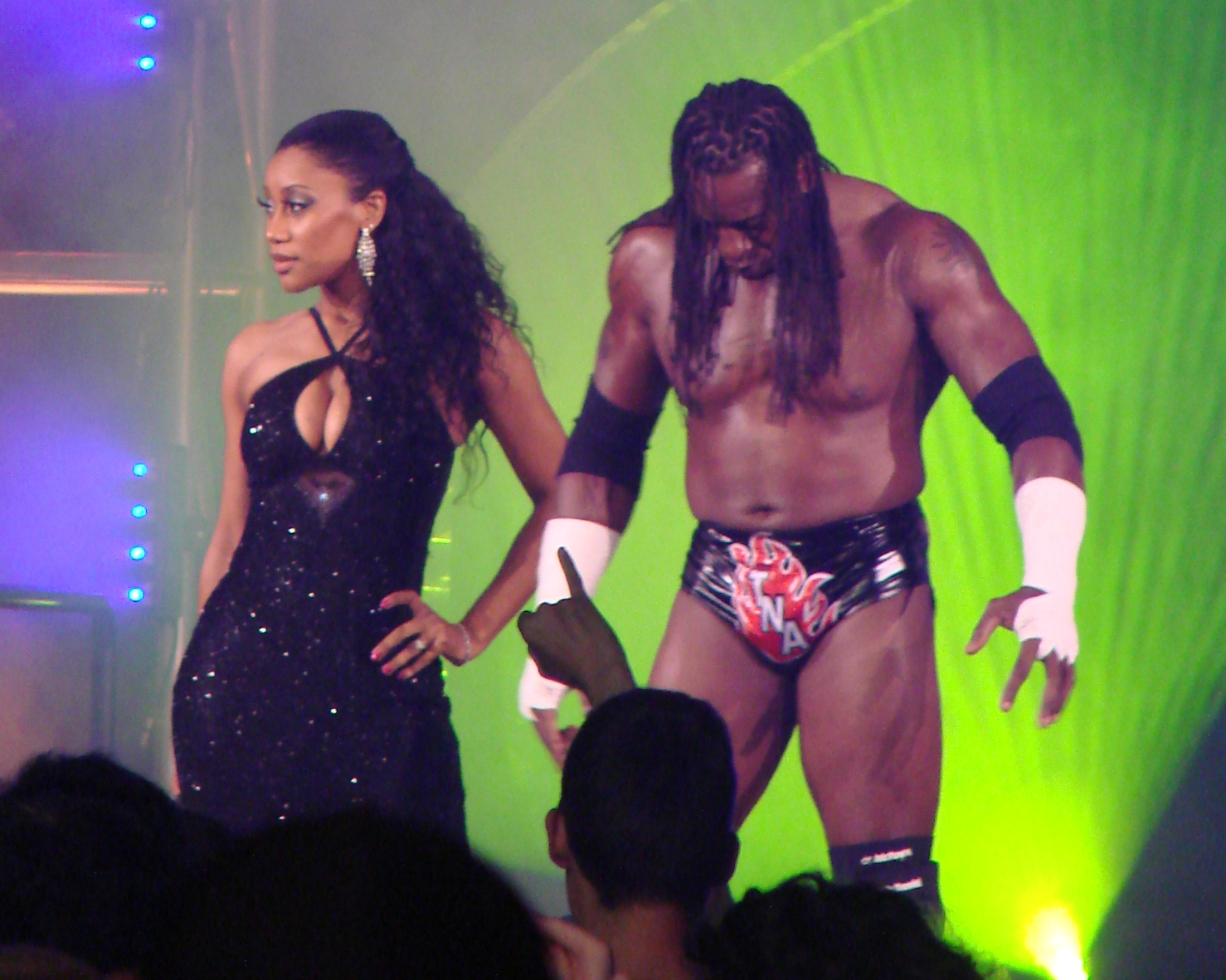 Booker T and Sharmell at TNA Bound for Glory IV. Sears Centre, Hoffman Estates, IL. Taken by myself. Rotated and cropped.